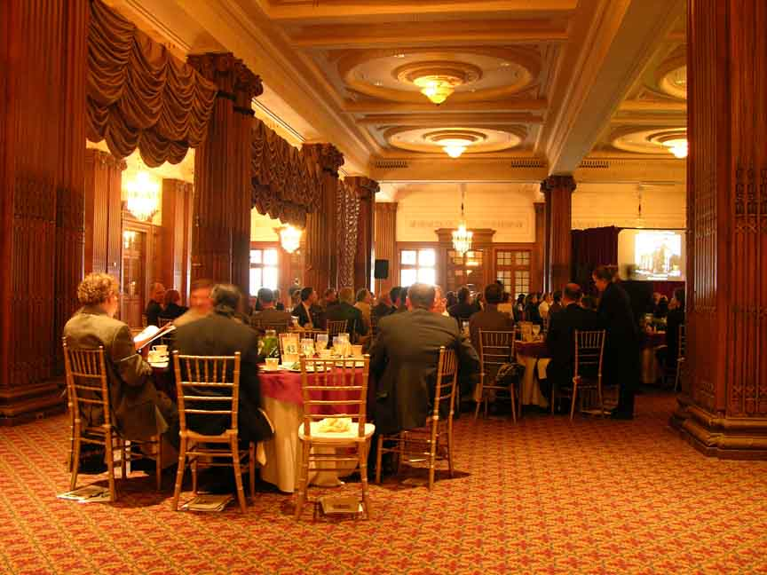 Corner of the Great Crystal Tea Room at John Wanamaker, Philadelphia, now operated as a banqueting hall and ballroom by the Marriott Hotel Chain as part of the Philadelphia Convention Center operations.